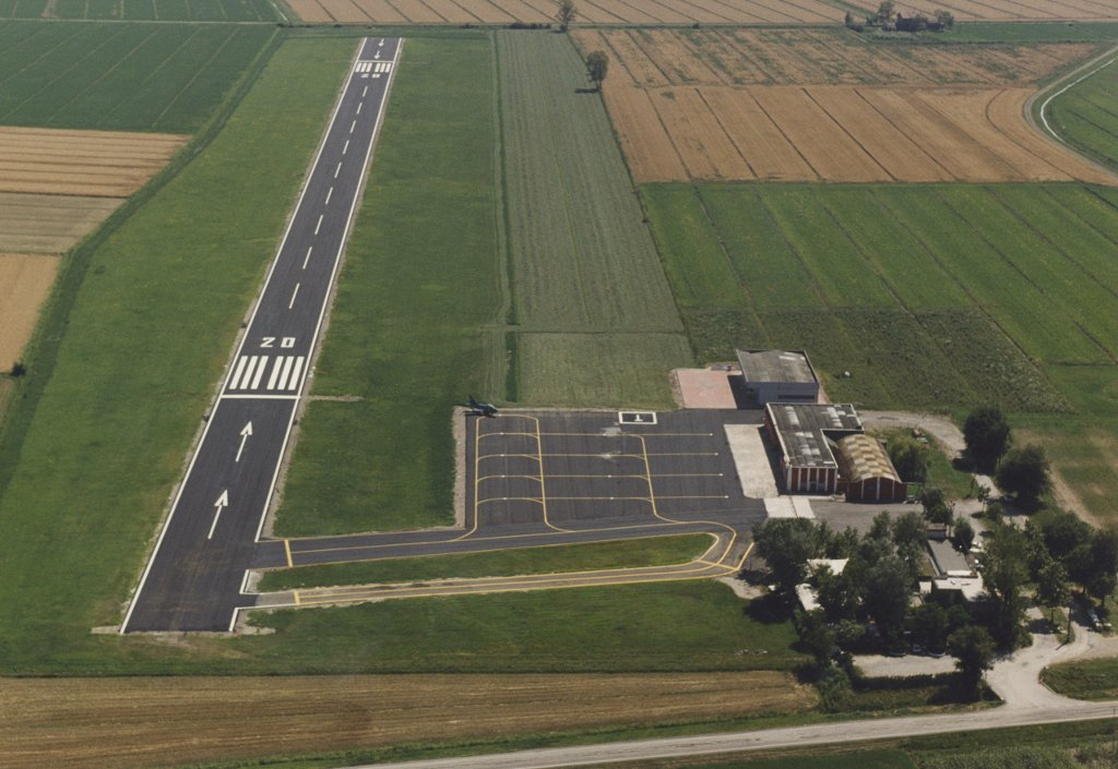 Aerial photograph of Carpi Airport